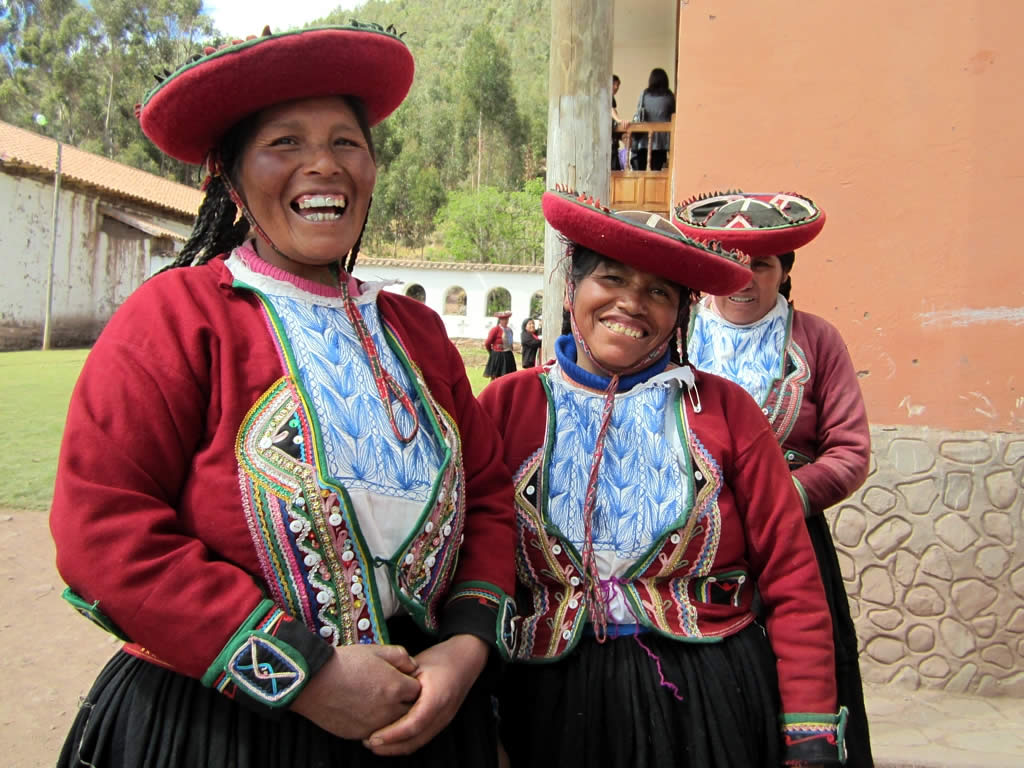 Local women at Umasbamba village, Chinchero District, Peru.